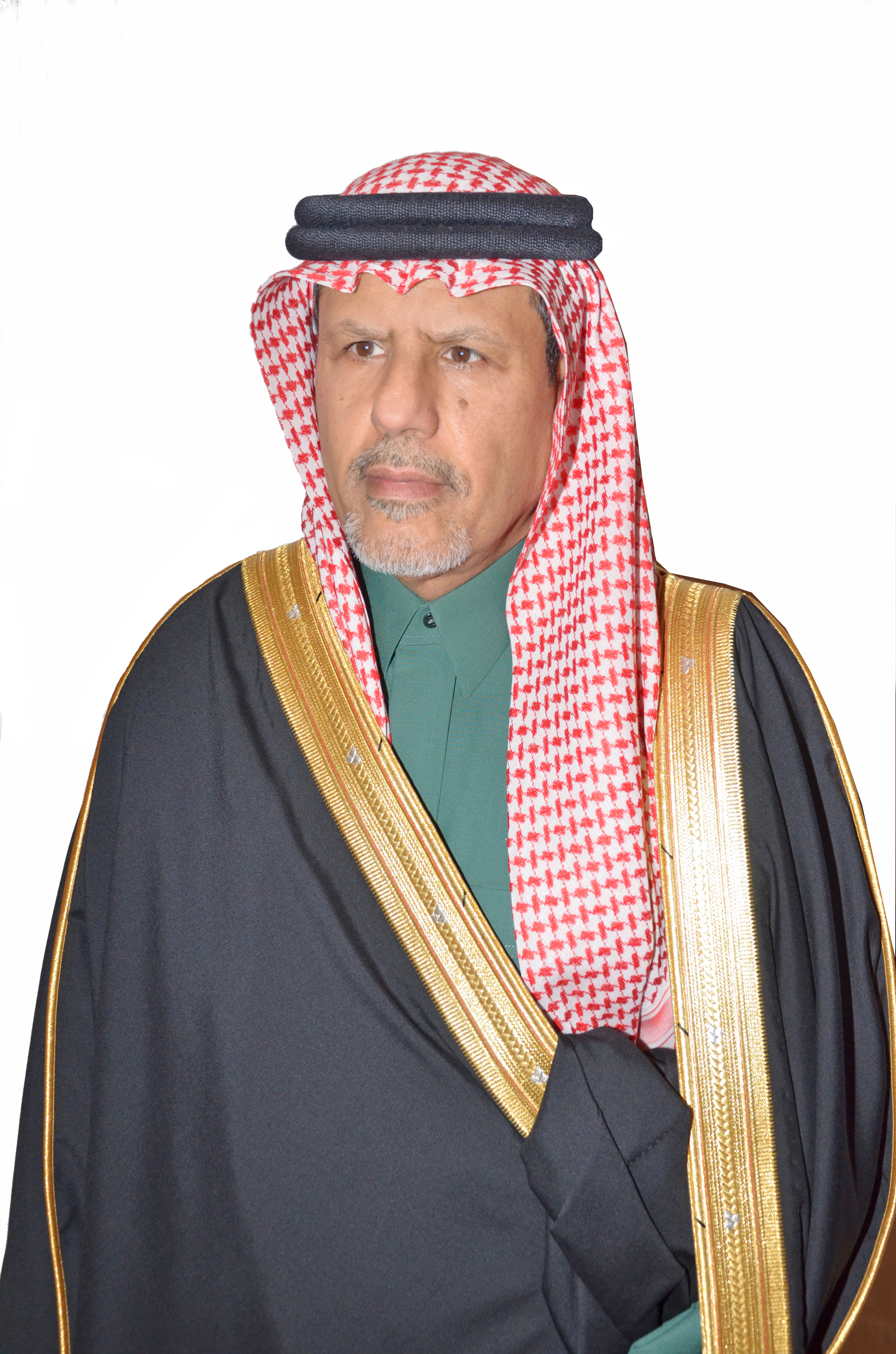 Personal Photo of Dr. Turki Faisal Alrasheed